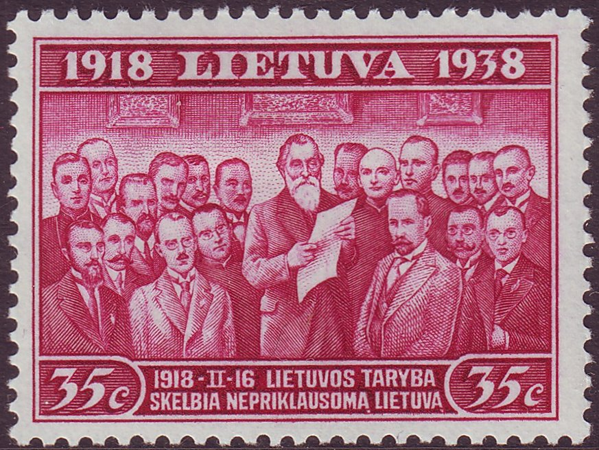 Stamp of Lithuania; 1939; commemorative issue to the 20th anniversary of the Republic of Lithuania Inscription: "1918-II-16 - Lietuvos taryba skelbia nepriklausoma Lietuva" = Lithuanian for "16 Feb 1918 - The Lithuanian Council proclaims the independent Lithuania" Stamp: Michel: No. 427 (LT); AFA: No. 428 (LT) Color: lilac Watermark: none Nominal value: 35 C. (Centai) Postage validity: from 15 February 1939 until 20 August 1940